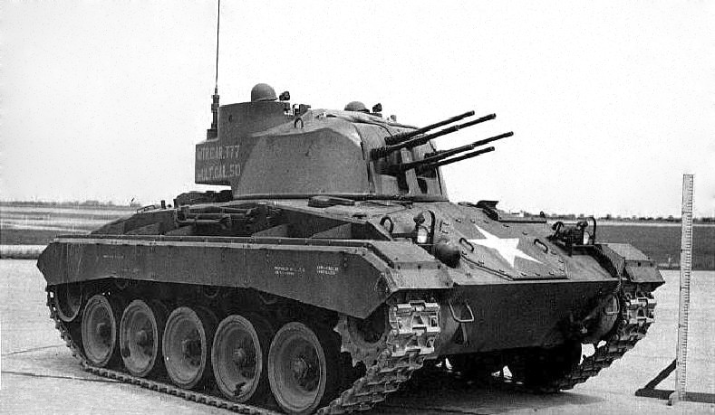 Prototype Multiple .50 caliber Gun Motor Carriage T77 on M24 Chaffee tank chassis. Aberdeen proving ground